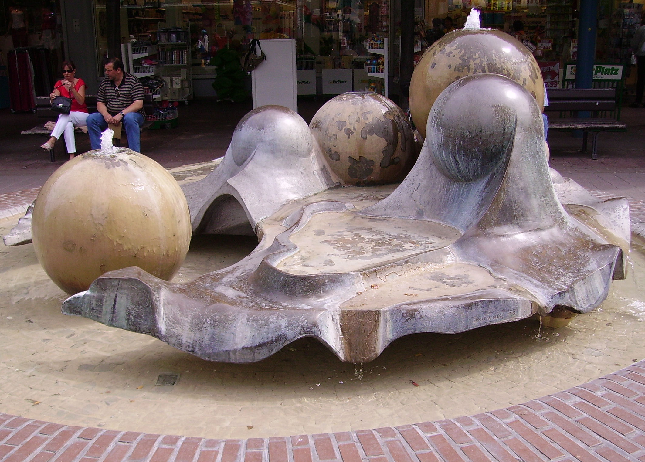 views of Ludwigshafen in Germany